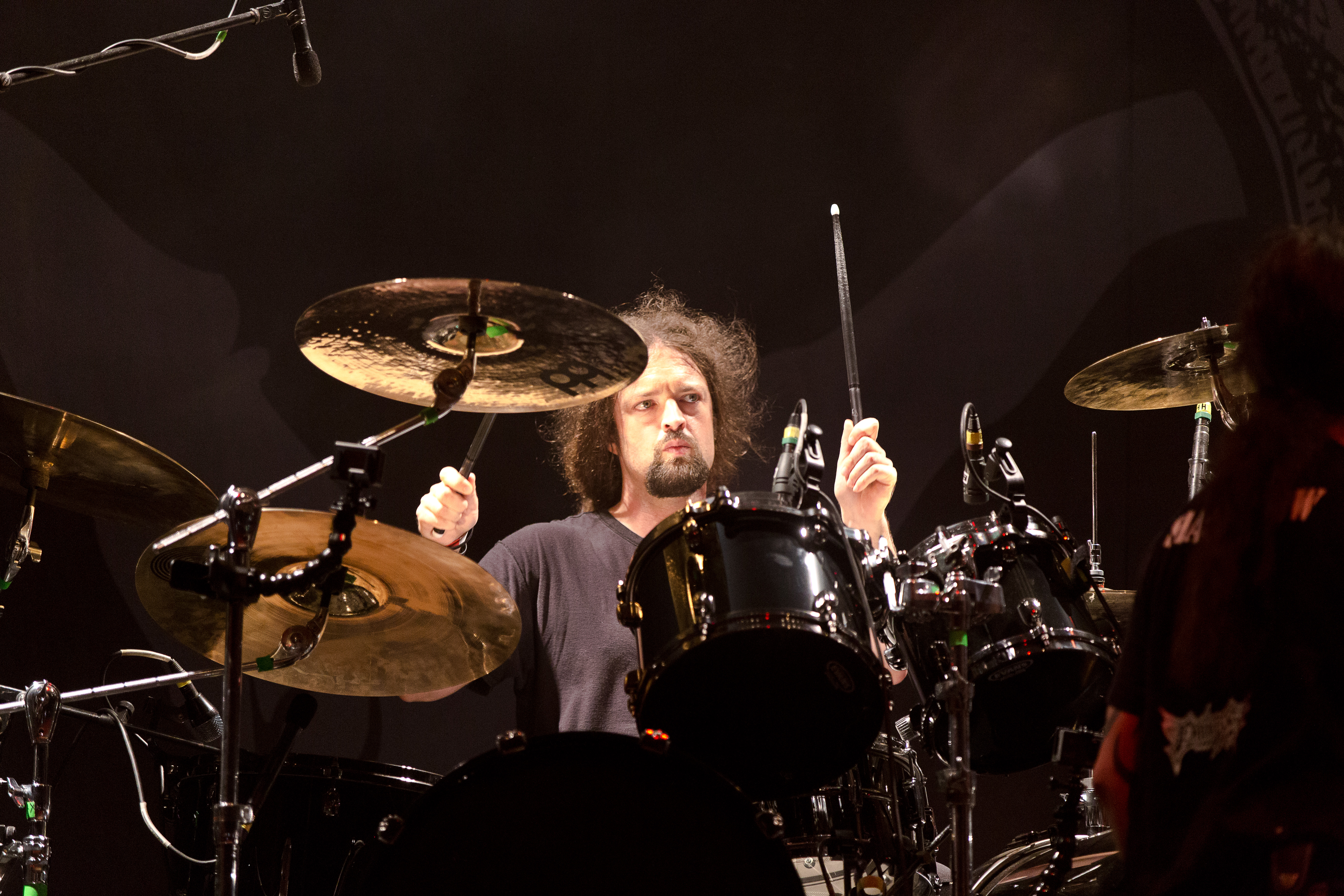 The Irish pagan metal band Primordial at the Party.San Open Air 2015 in Obermehler-Schlotheim/Germany.